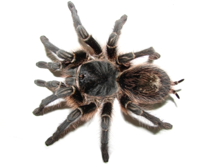 Female Grammostola vachoni